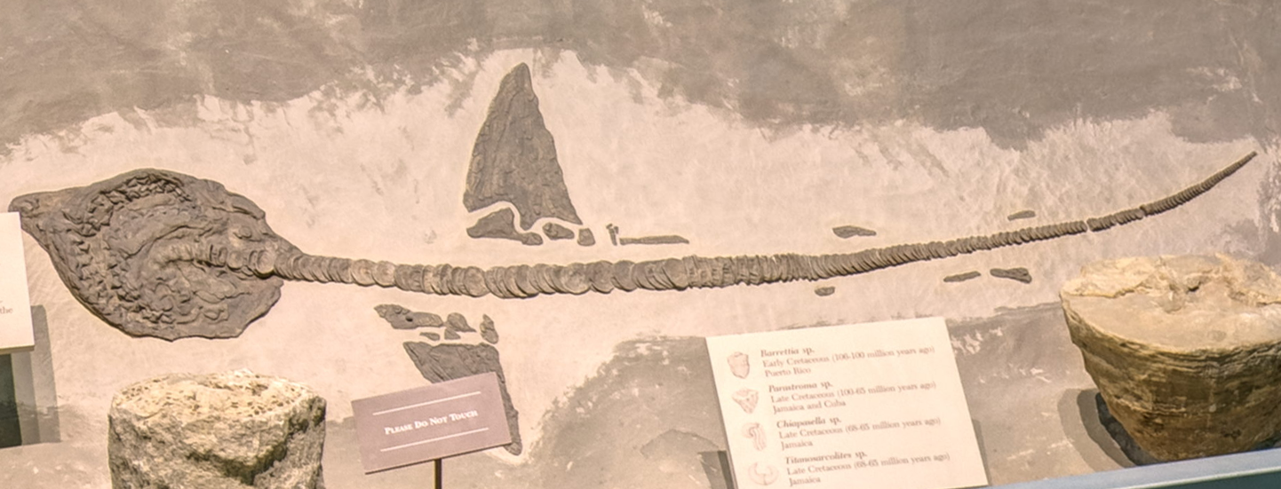 Nearly complete skeleton of Squalicorax falcatus from the Niobrara Formation in Kansas. A specimen from the collections of the Smithsonian Institution